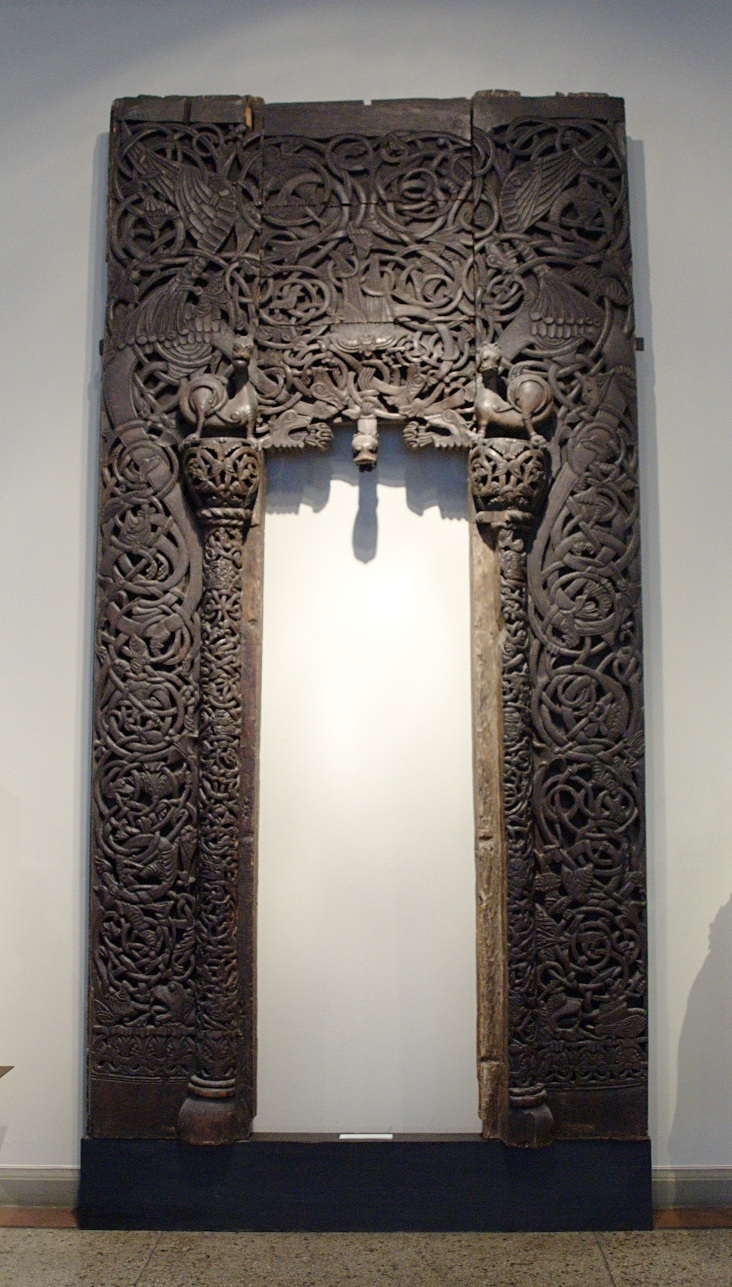 Portal from Ål stave church. The portal is estimated to 1150.